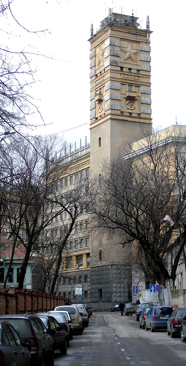 General HQ of Russian Army, Moscow, Znamenka Street (view through Kolymazhnaya Street).